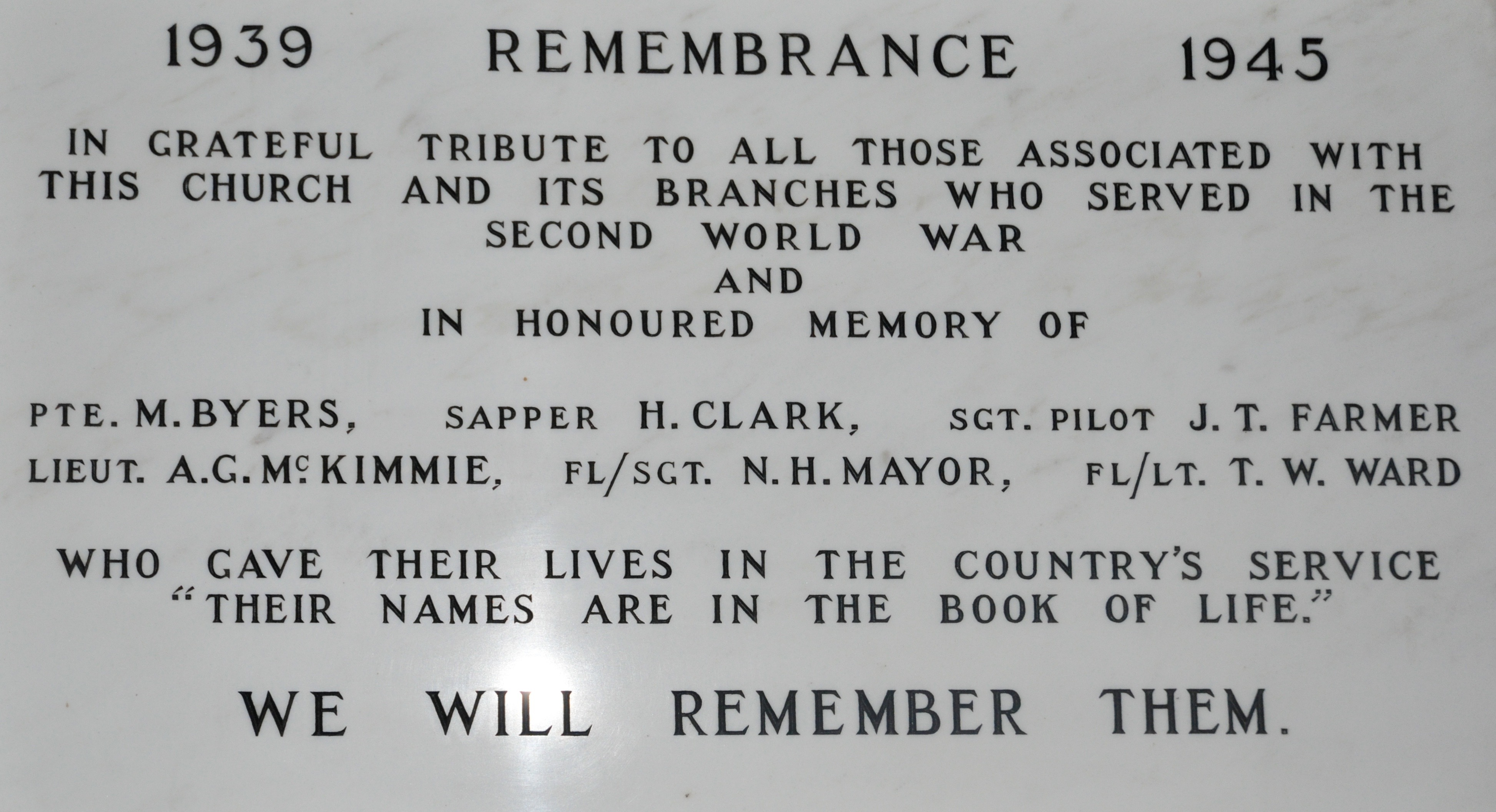 Plaque lsiting names of six members of Hillhead Baptist Church killed during the Second World War